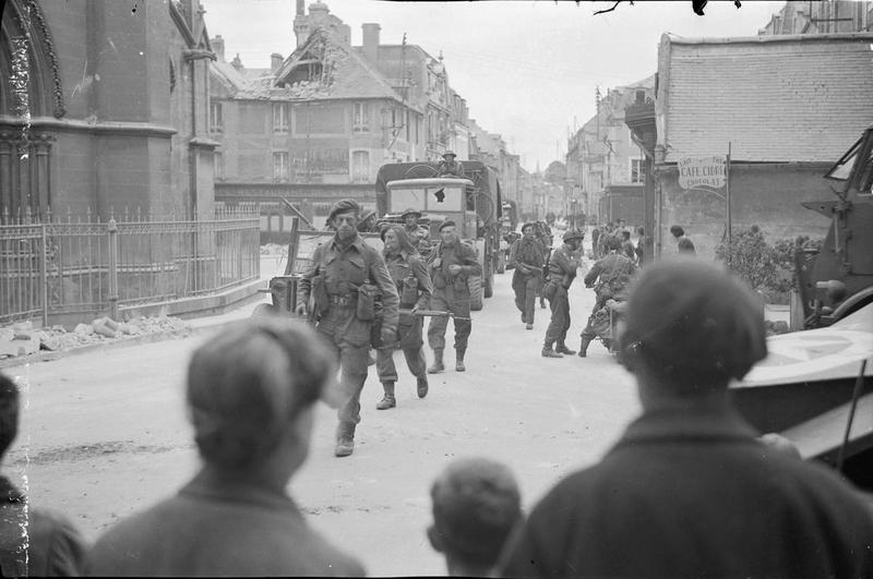 The British Army in the Normandy Campaign 1944 Men of 46 (RM) Commando, 4th Special Service Brigade, entering the village of Douvres-la-Delivrande, 8 June 1944, watched by French civilians.